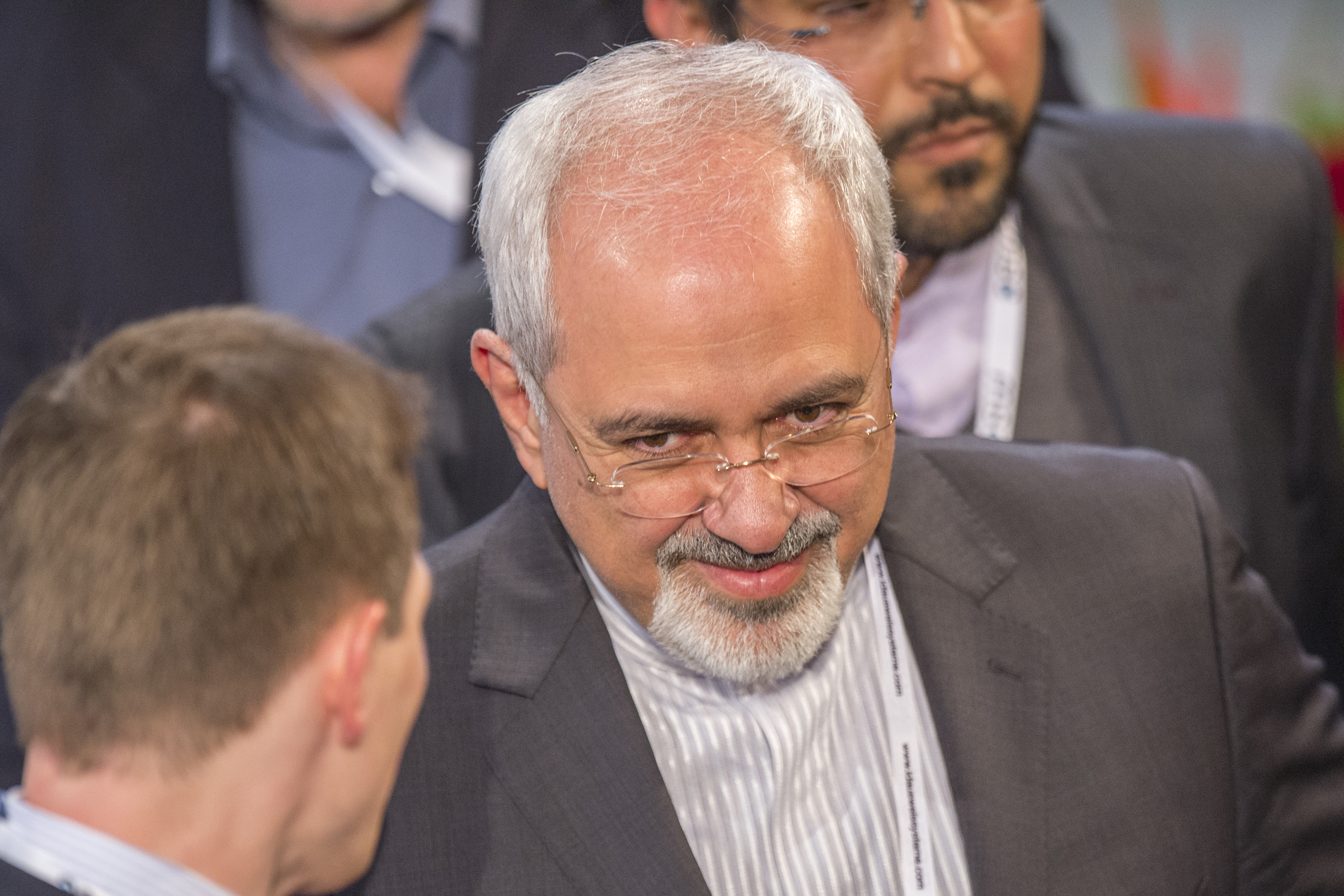 50th Munich Security Conference 2014: Mohamad Javad Zarif: Mohamad Javad Zarif (Minister of Foreign Affairs, Islamic Republic of Iran) arrives at the Hotel Bayerischer Hof.